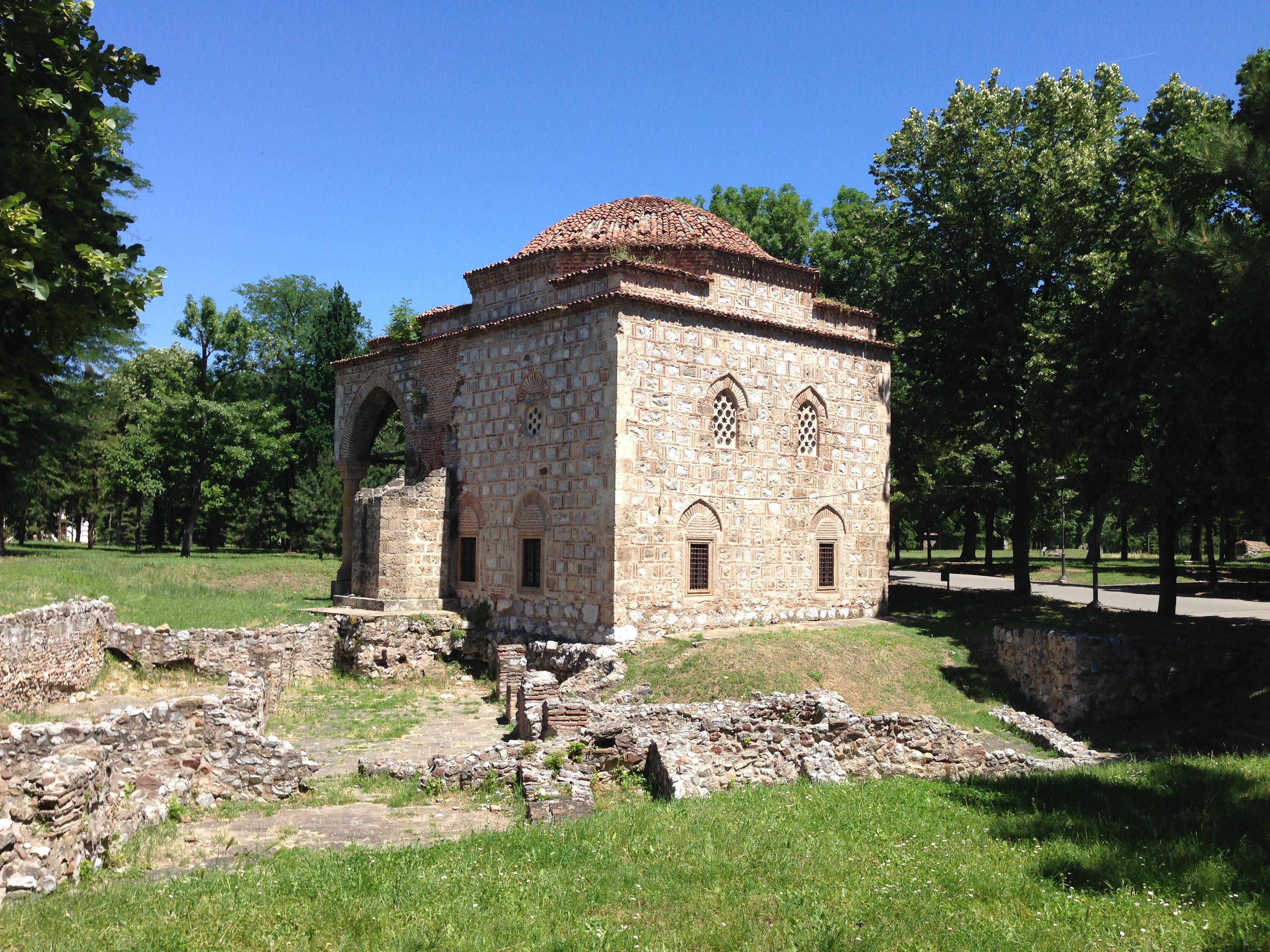 Remains of an ancient workshop in the Niš Fortress